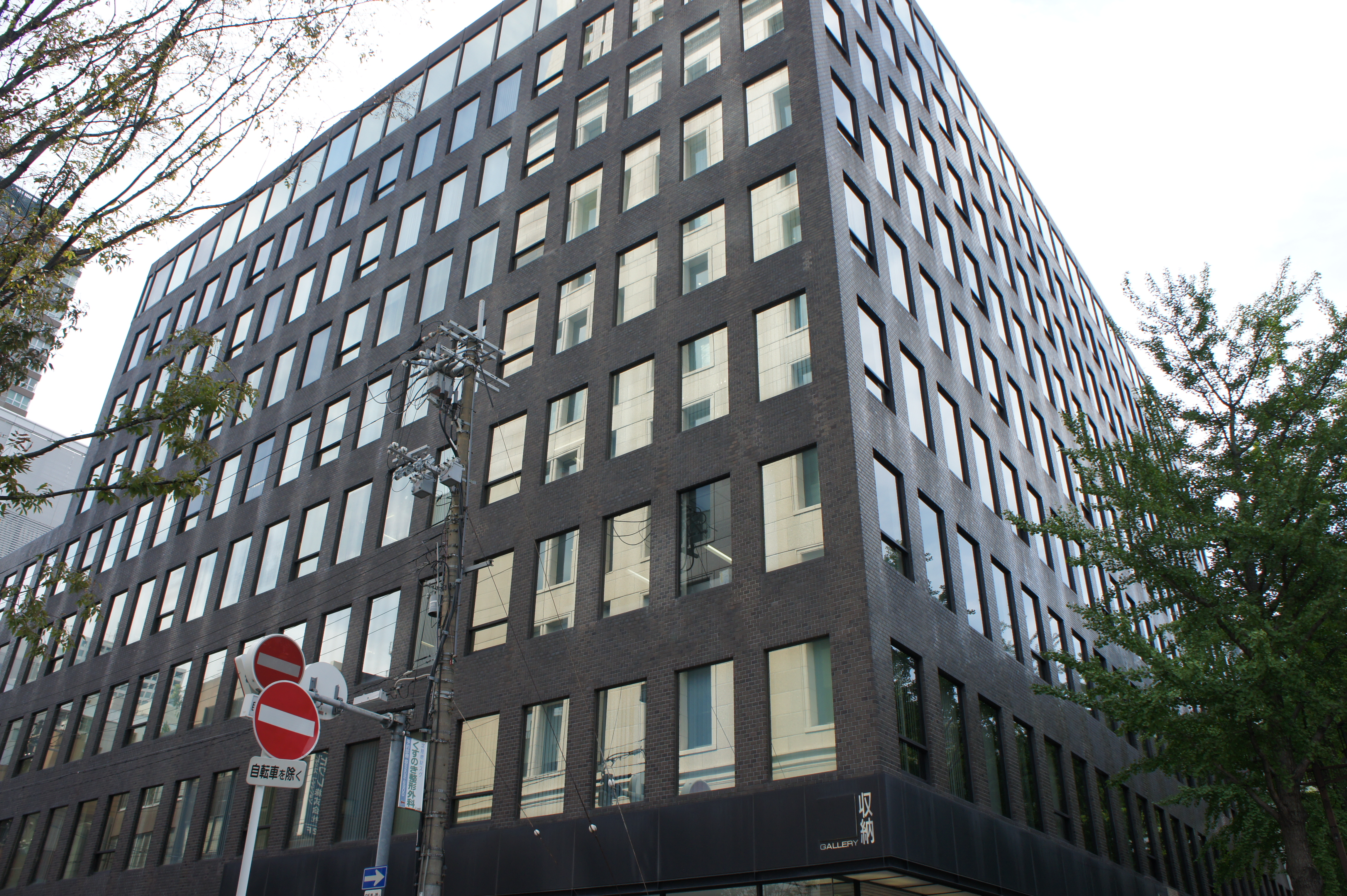 Ito Building, 3-6-14 Minamimoto-cho Chuo-Ku Osaka-City Osaka Japan.